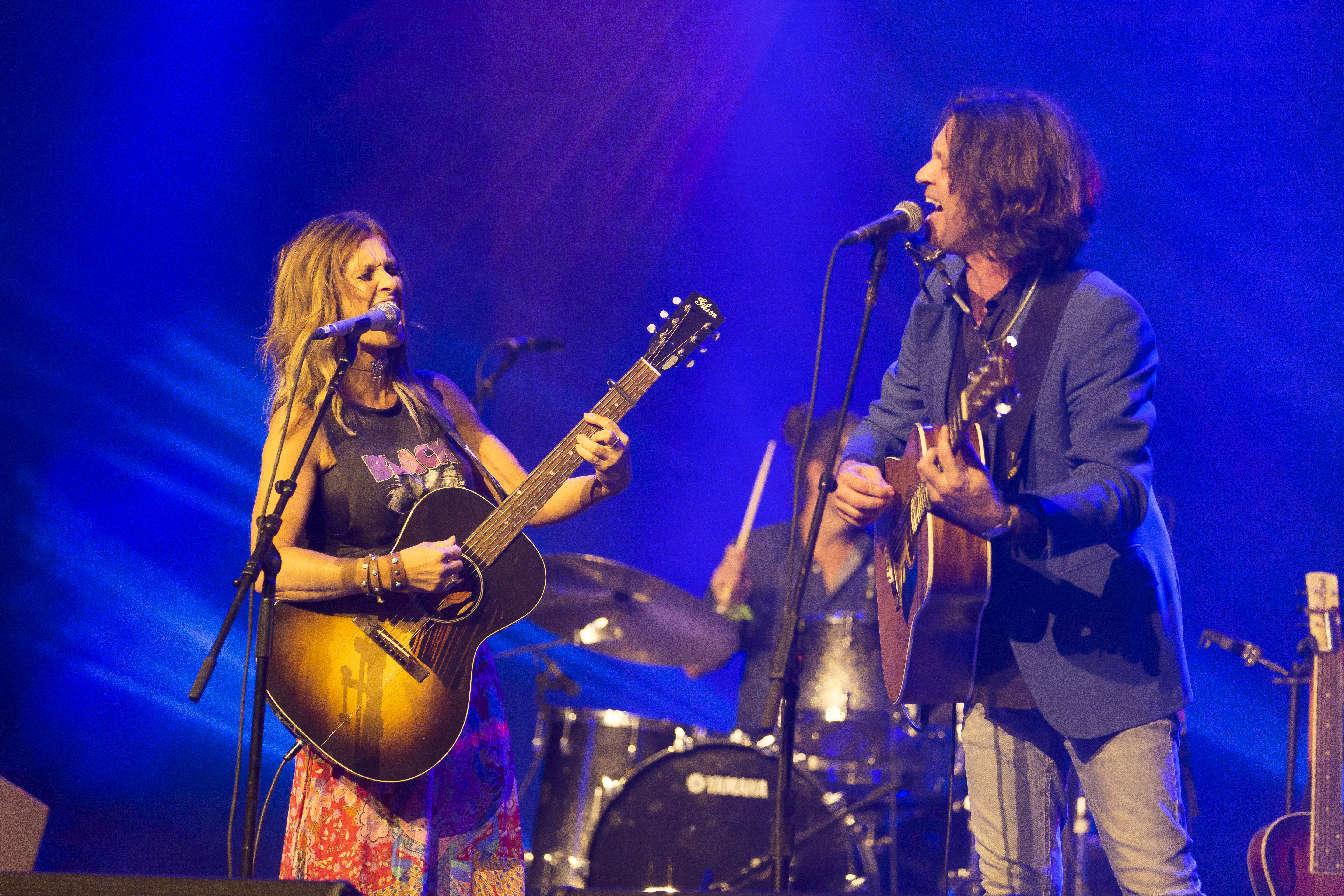 Kasey Chambers and Bernard Fanning duet.